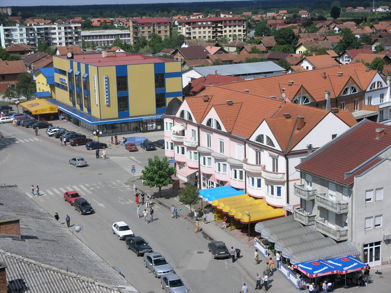 Odzak 2009